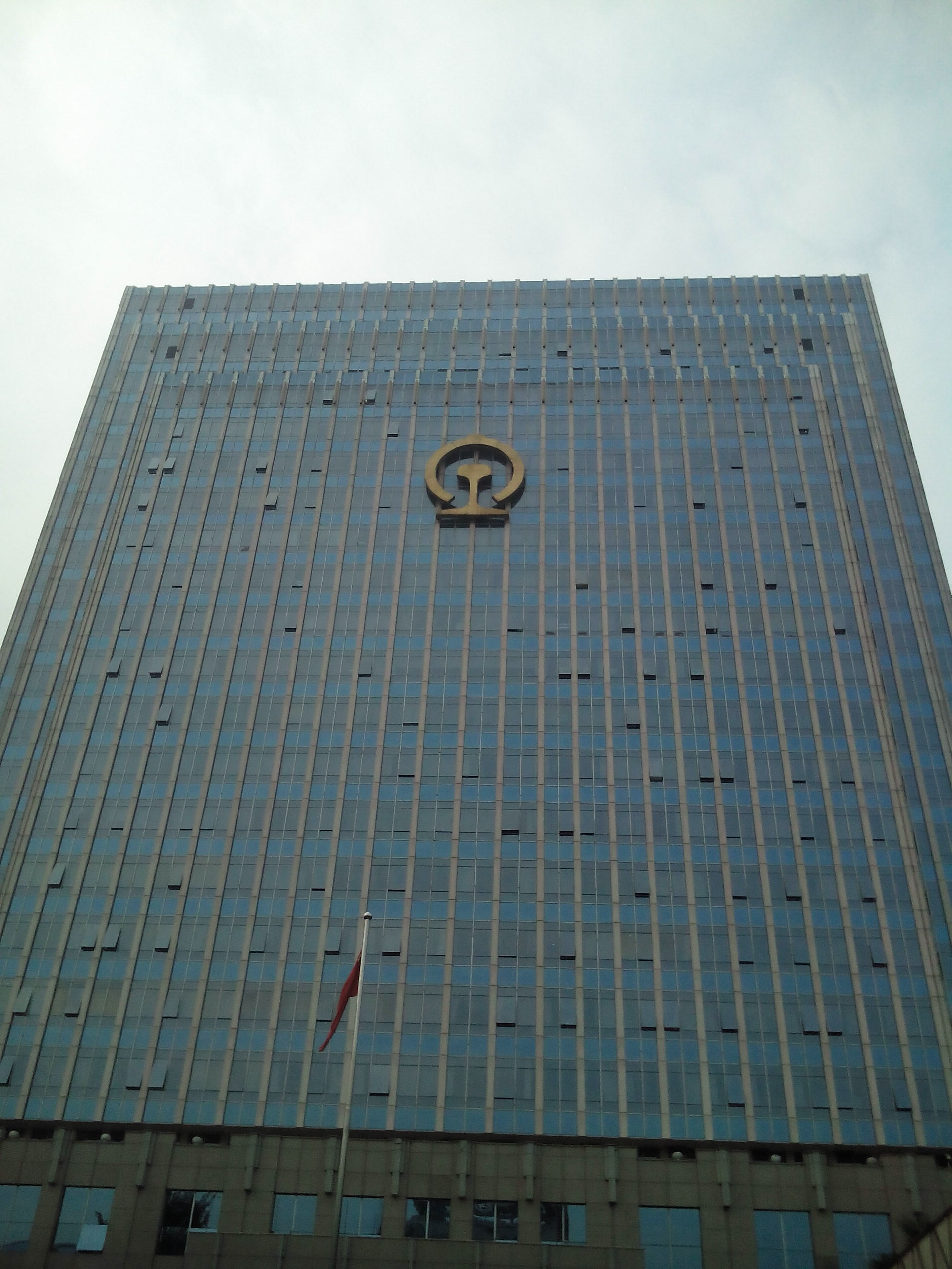 201504 Office of Guangzhou Railway Corporation